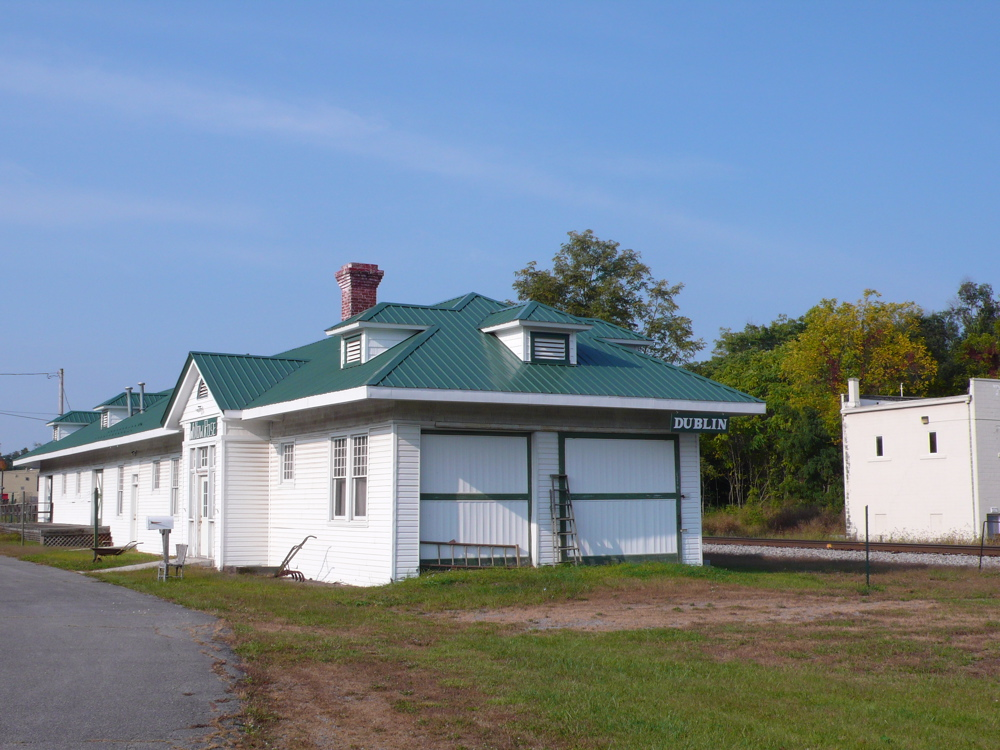 The former train station along US 11 in Dublin, Virginia.